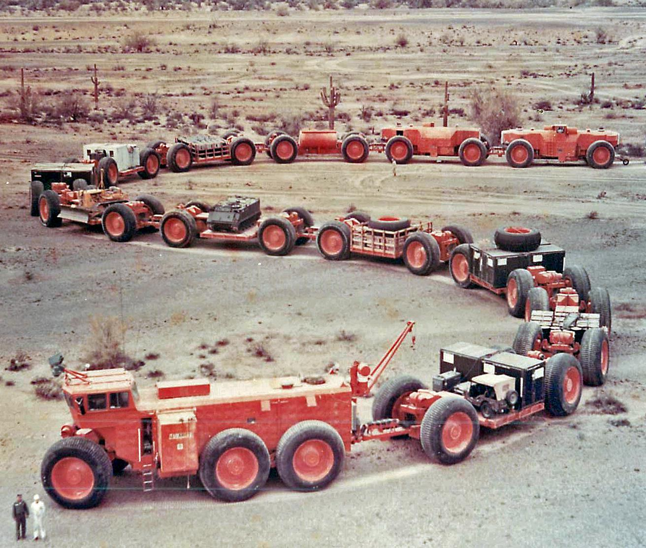 Original caption: "Built by La Turneau and tested at Yuma Proving Ground, Arizona. One was built, tested then sold for scrap. I believe the tractor is still on display at YPG."